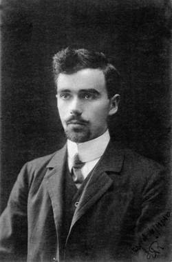 Edvard Rusjan (1886 – 1911), slovenian flight pioneer